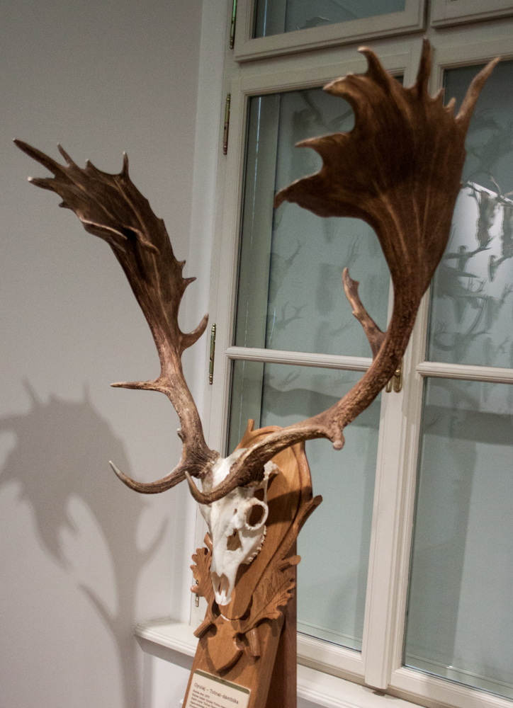 Gyulaj_-_Tolnai_Buck, location - Gyulaj (Tolna County); hunter - Ferenc Tolnai; weight 5,15 kg; CIC points - 217,25 IP; world record in 1970label QS:Len,"Gyulaj_-_Tolnai_Buck, location - Gyulaj (Tolna County); hunter - Ferenc Tolnai; weight 5,15 kg; CIC points - 217,25 IP; world record in 1970" label QS:Lhu,"Gyulaj - Tolnai dámbika, Gyulaj, Tolna megye, Tolnai Ferenc, tömeg - 5,15 kg, CIC pontszám 217,25 IP, világrekord 1970-ben"